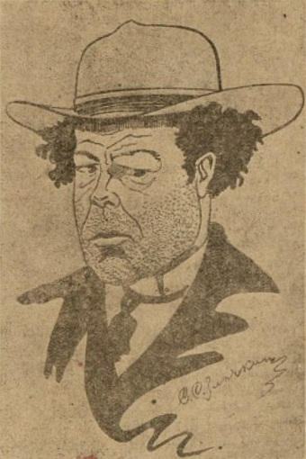 Self-portrait of Bulgarian caricaturist and writer Sava Zlachkin.